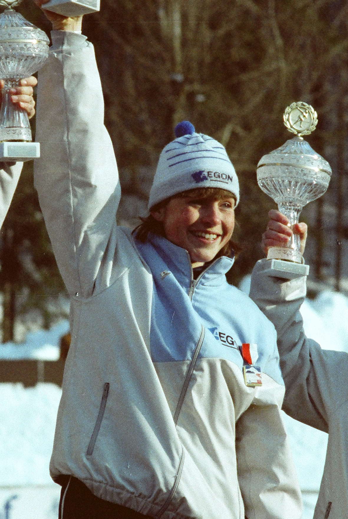 Yvonne van Gennip is a former Dutch speedskater